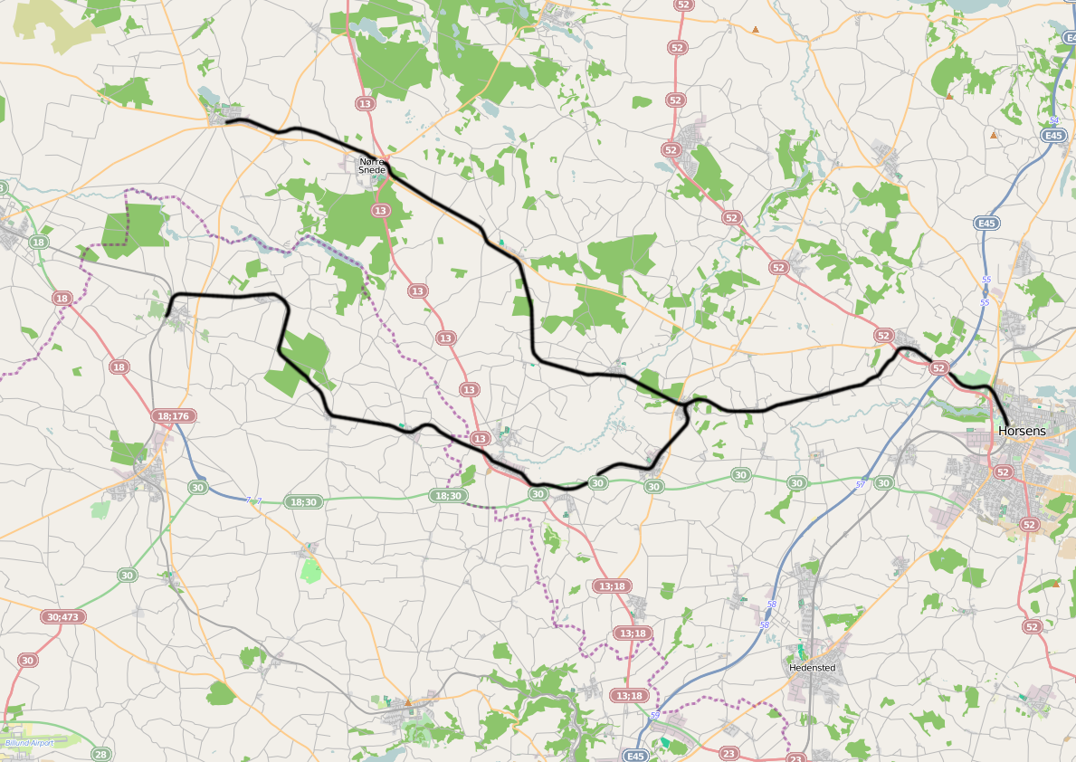 Railway line Horsens - Thyregod